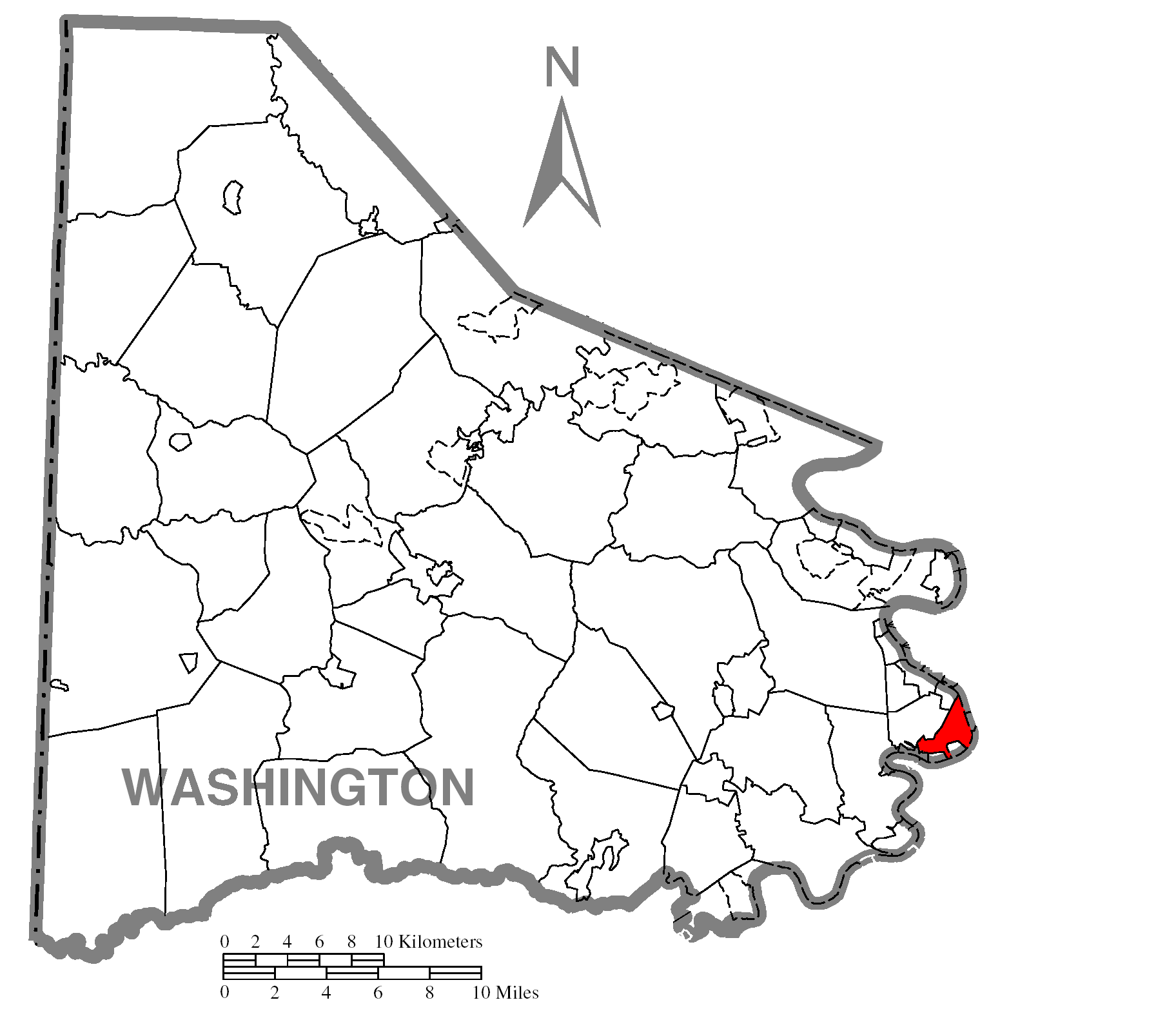 Map of Washington County higlighting Allenport.